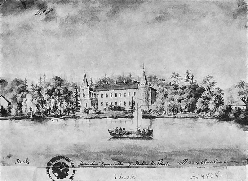 .Siesikai manor, Lithuania 19th century